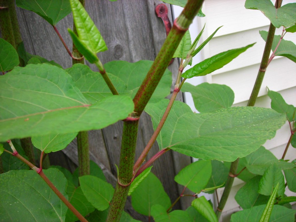 Detail of a Japanese Knotweed stalk. Taken May 2007.